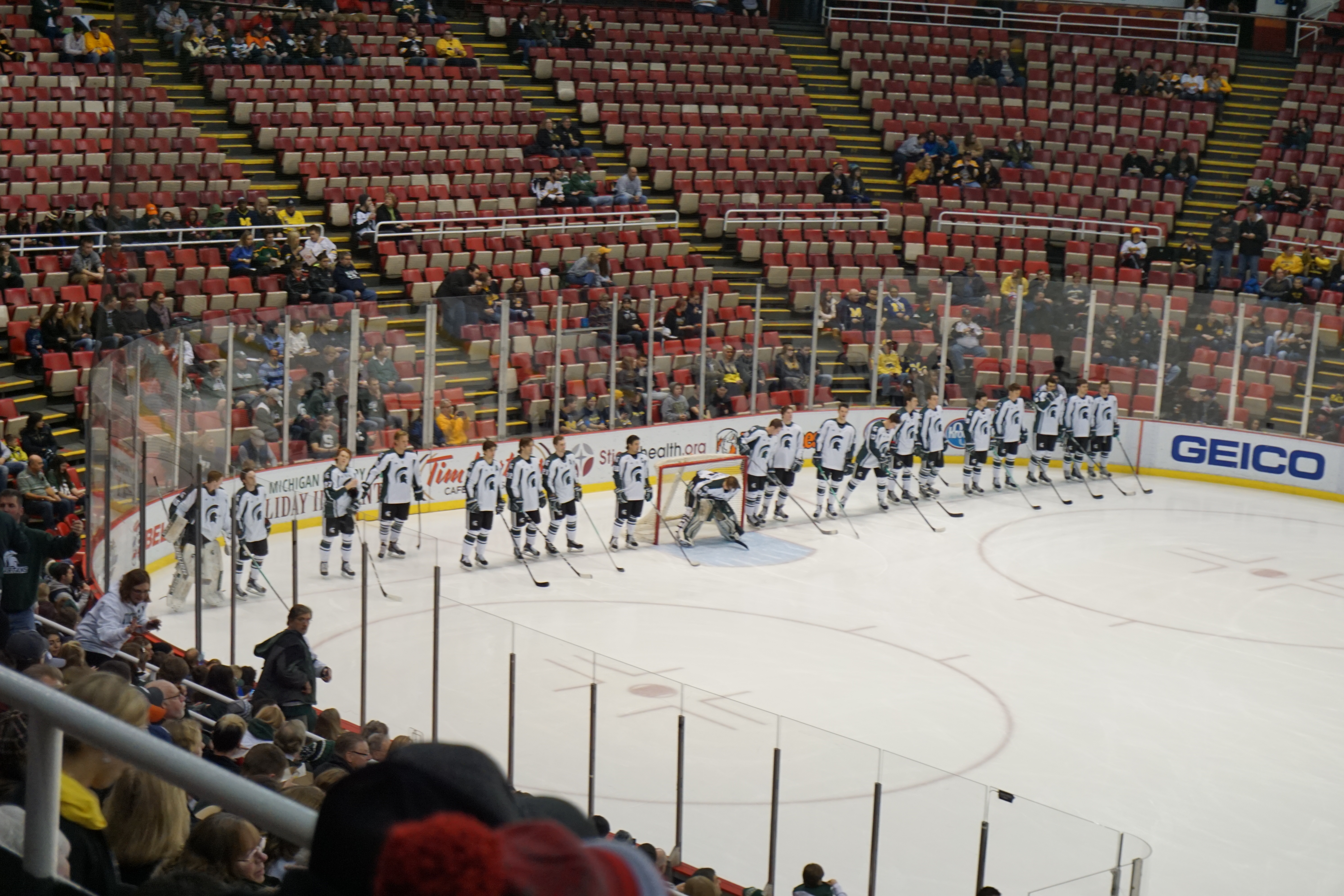 Michigan State player introductions before the Northern Michigan Wildcats vs. Michigan State Spartans men's ice hockey game (the 2015 Great Lakes Invitational consolation game) at Joe Louis Arena in Detroit, Michigan (United States). Northern Michigan won 2–1 in overtime.